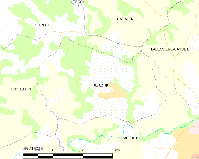 Map of French municipality Busque